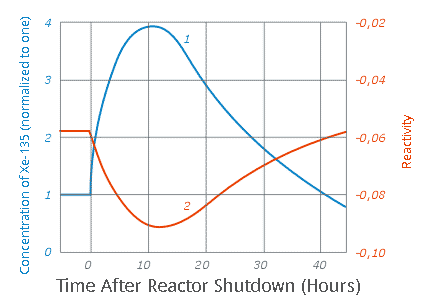 Iodine PitGraph showing the concentration of Xenon and the reactivity of the nuclear reaction from the moment the reactor is shutdown.